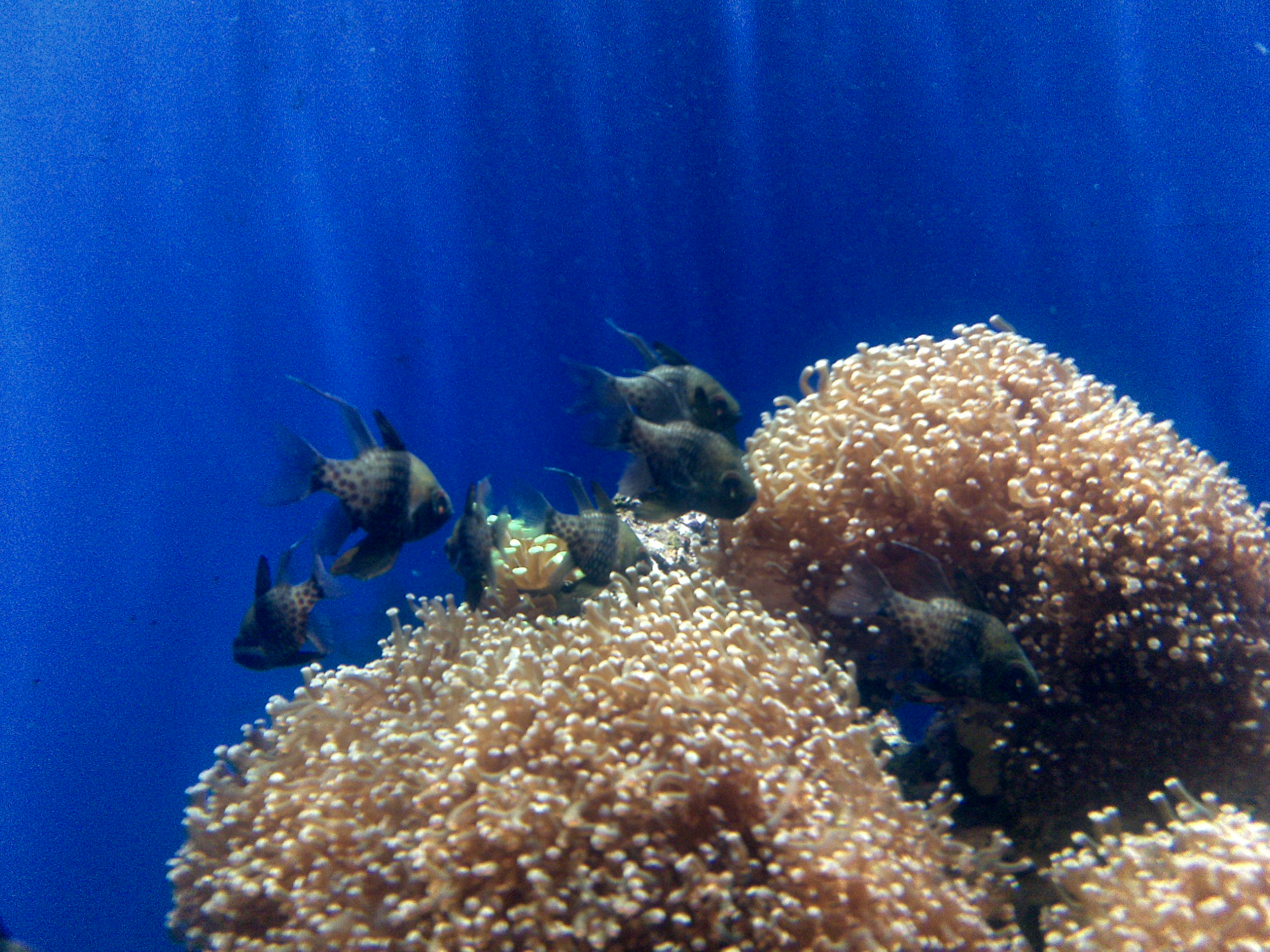 Sphaeramia nematoptera, or Pyjama cardinalfish. Photo taken in the London Zoo.